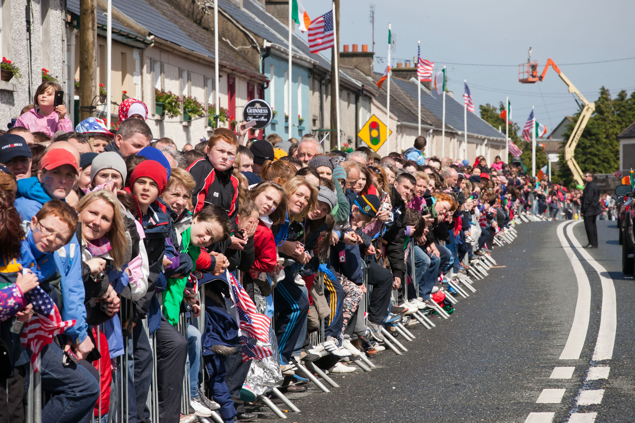 A crowd of onlookers watches as United States President Barack Obama and First Lady Michelle Obama walk east along Main Street in Moneygall, County Offaly, Ireland, 23 May 2011.